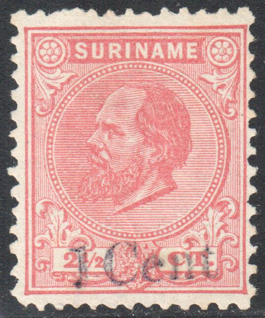 Surinam 1873 with bogus overprint '1 Cent'. Catalogue: (stamp) NVPH 3